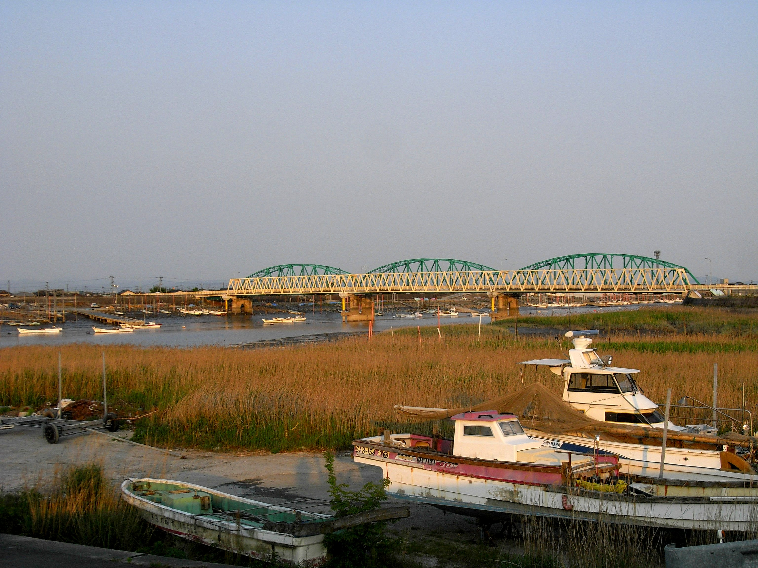 Rokkakugawa river(Saga pref./Japan)